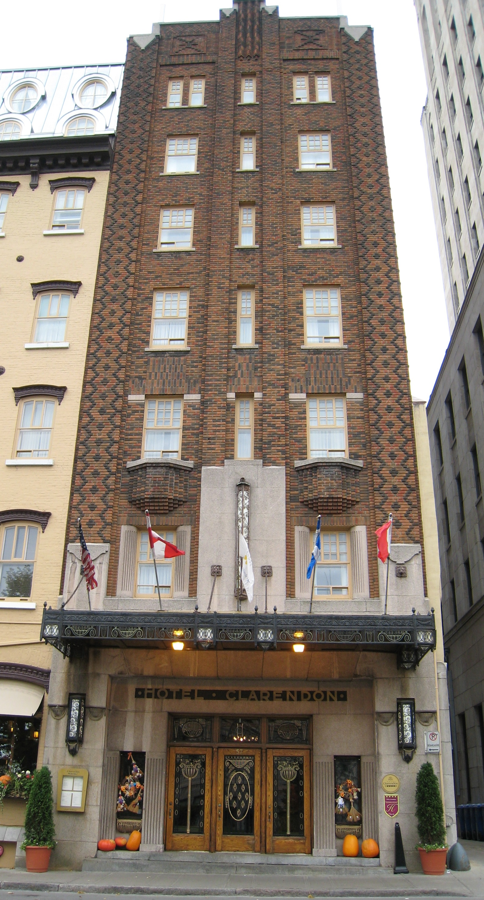 The Clarendon Hotel, or Clarendon House (French: Hôtel Clarendon), is a high-end hotel in the historic part of Quebec City. It is the oldest continuously operating hotel in the city.